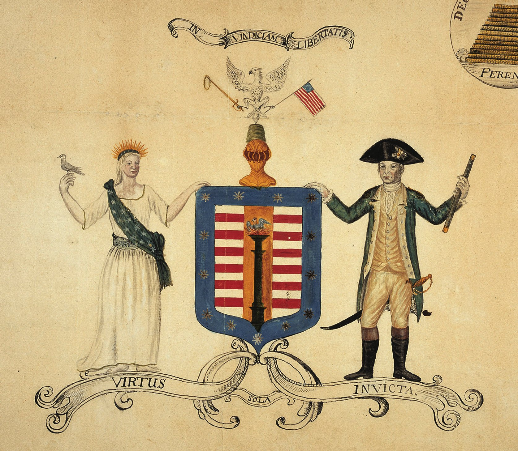 The obverse side of William Barton's design for the Great Seal of the United States, done as part of the third committee's attempt for a design. This was not used, as it was too complex, though this was the first appearance of an eagle in any of the preliminary designs. Barton's full blazon was:[1] Arms: Barry of thirteen pieces, Argent & Gules; on a pale, Or, a Pillar of the Doric Order, Vert, reaching from the Base of the Escutcheon to the Honor point; and, from the Summit thereof, a Phoenix in Flames with Wings expanded, proper: the whole within a Border, Azure, charged with As many Stars as pieces barways, of the first. Crest: On an Helmet of Burnished Gold, damasked, grated with six Bars, a Cap of Liberty, Vert; with an Eagle displayed, Argent, resting thereon; holding in his dexter Talon a Sword, Or, having a Wreath of Laurel suspended from the point; and, in the sinister, the Ensign of the United States, proper. Supporters: On the dexter side, the Genius of the American Confederated Republic: represented by a Maiden, with flowing Auburn Tresses; clad in a long, loose, white Garment, bordered with Green; having a Sky blue Scarf, charged with Stars as in the Arms, reaching across her Waist from her right Shoulder to her left Side; and, on her Head, a radiated Crown of Gold, encircled with an Azure Fillet spangled with Silver Stars: round her Waist a Purple Girdle, embroidered with the Word "Virtus," in Silver a Dove, proper, perched on her dexter Hand. On the sinister side, an American Warrior; clad in a uniform Coat, of blue faced with Buff, and in his Hat a Cockade of black and white Ribbons: in his left Hand, a Baton Azure, semé of Stars Argent. Motto, over the Crest – In Vindiciam Libertatis. ("In Defense of Liberty ") Motto, under the Arms – Virtus sola invicta. ("Only virtue unconquered")